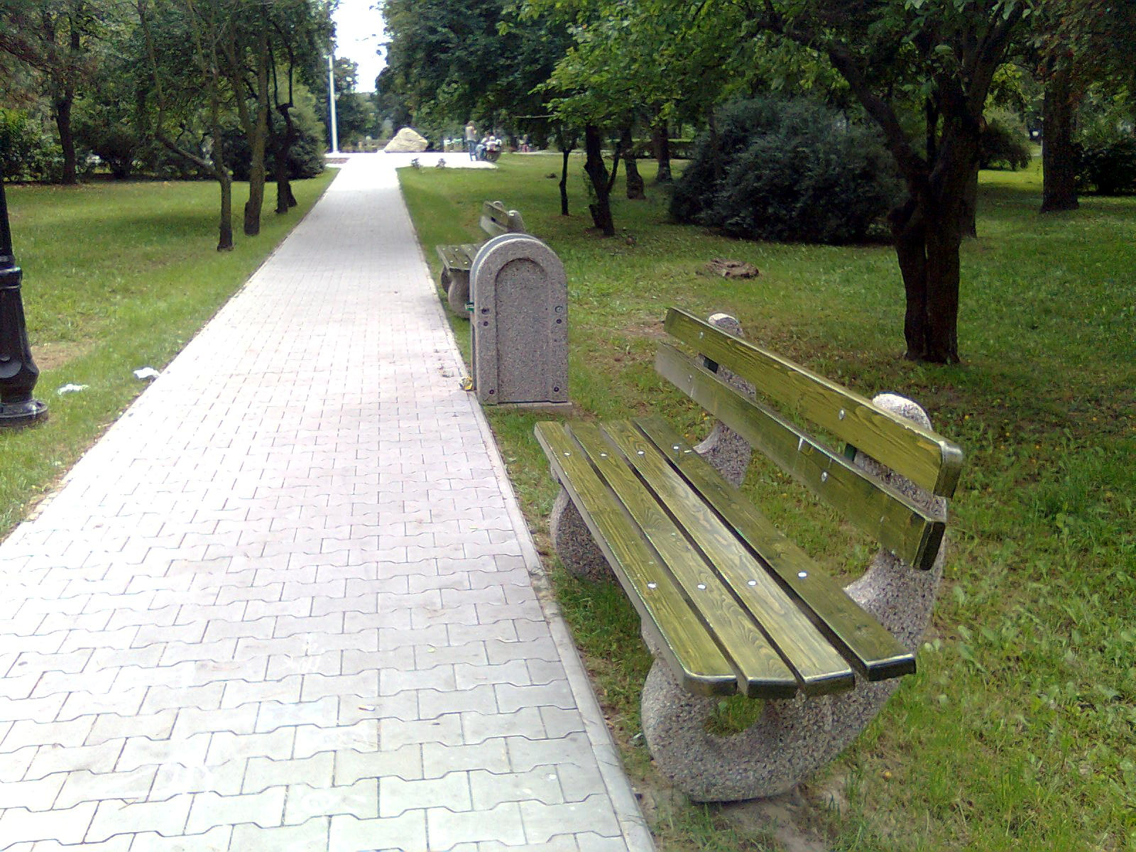 Former Jewish cemetery in Włodawa, Poland.